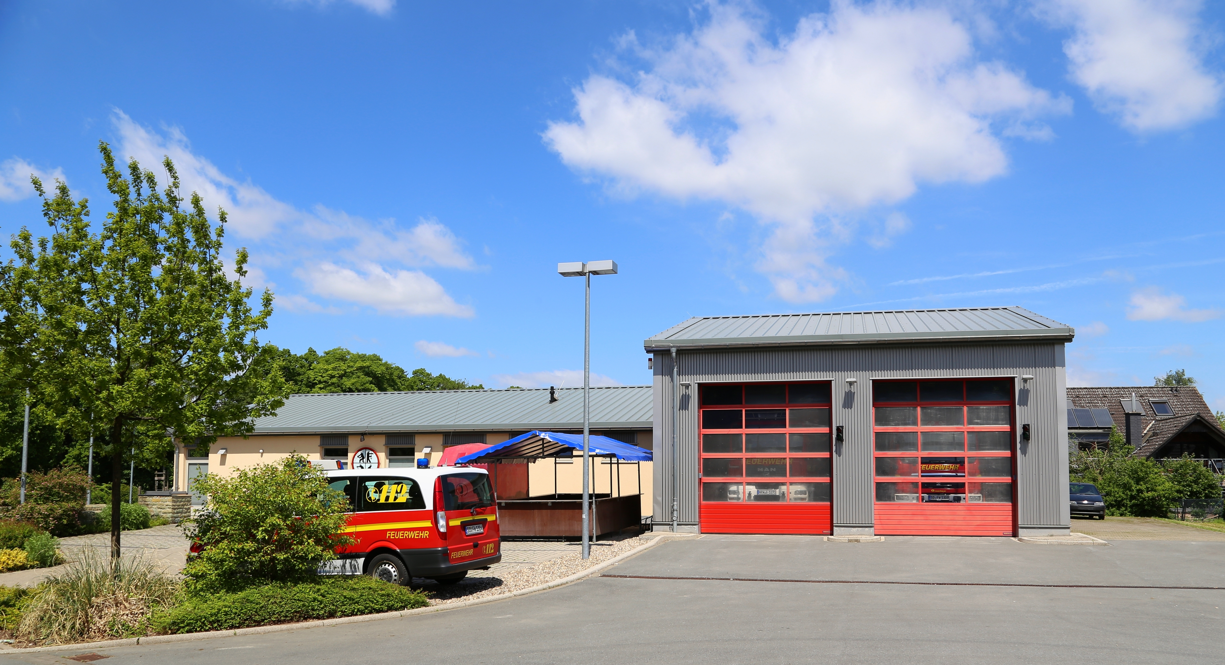 Volunteer fire station in Werl-Westönnen, Kreis Soest, North Rhine-Westphalia, Germany.